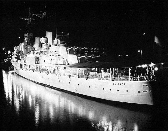 The Royal Navy cruiser HMS Belfast (C35) at Pearl Harbor, Hawaii (USA), in 1962. Belfast had left Singapore on 26 March 1962 for the UK, sailing east via Guam and Pearl Harbor, San Francisco, Seattle, British Columbia, Panama and Trinidad. She arrived at Portsmouth on 19 June 1962.